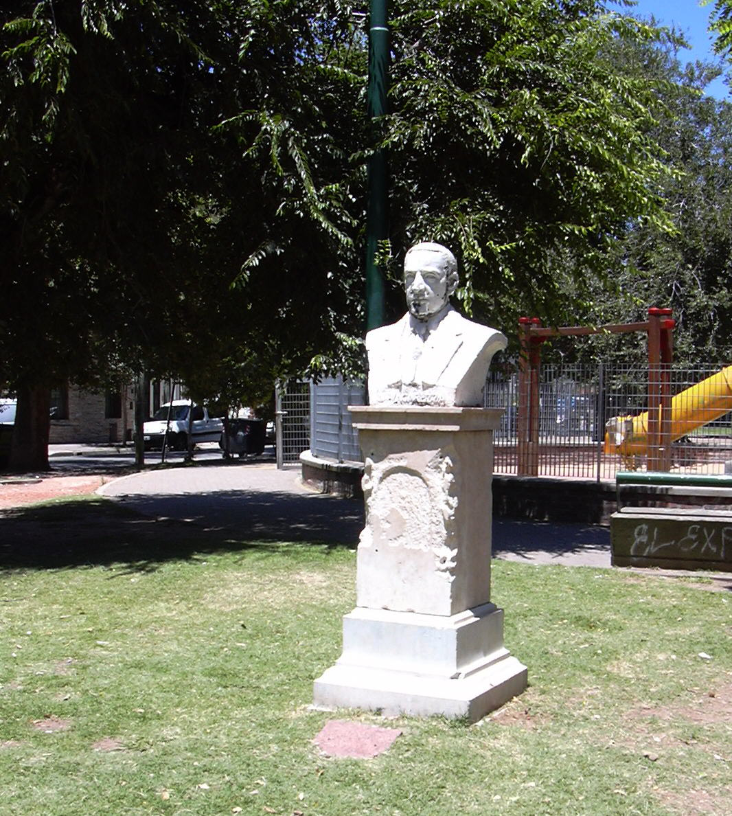 The Alberto Vaccarezza memorial, in the park of the same name in Villa Luro, Buenos Aires.